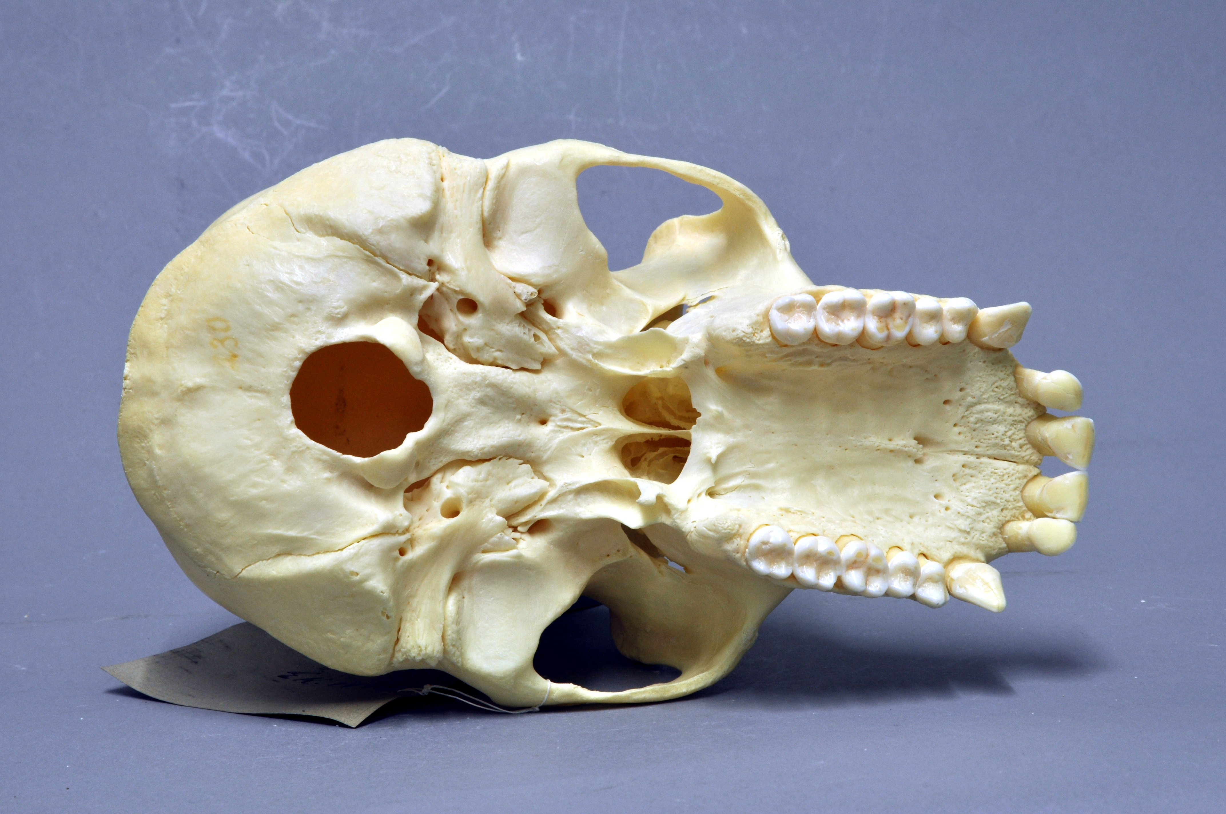 Common chimpanzee Pan troglodytes, skull, Coll. Museum Wiesbaden